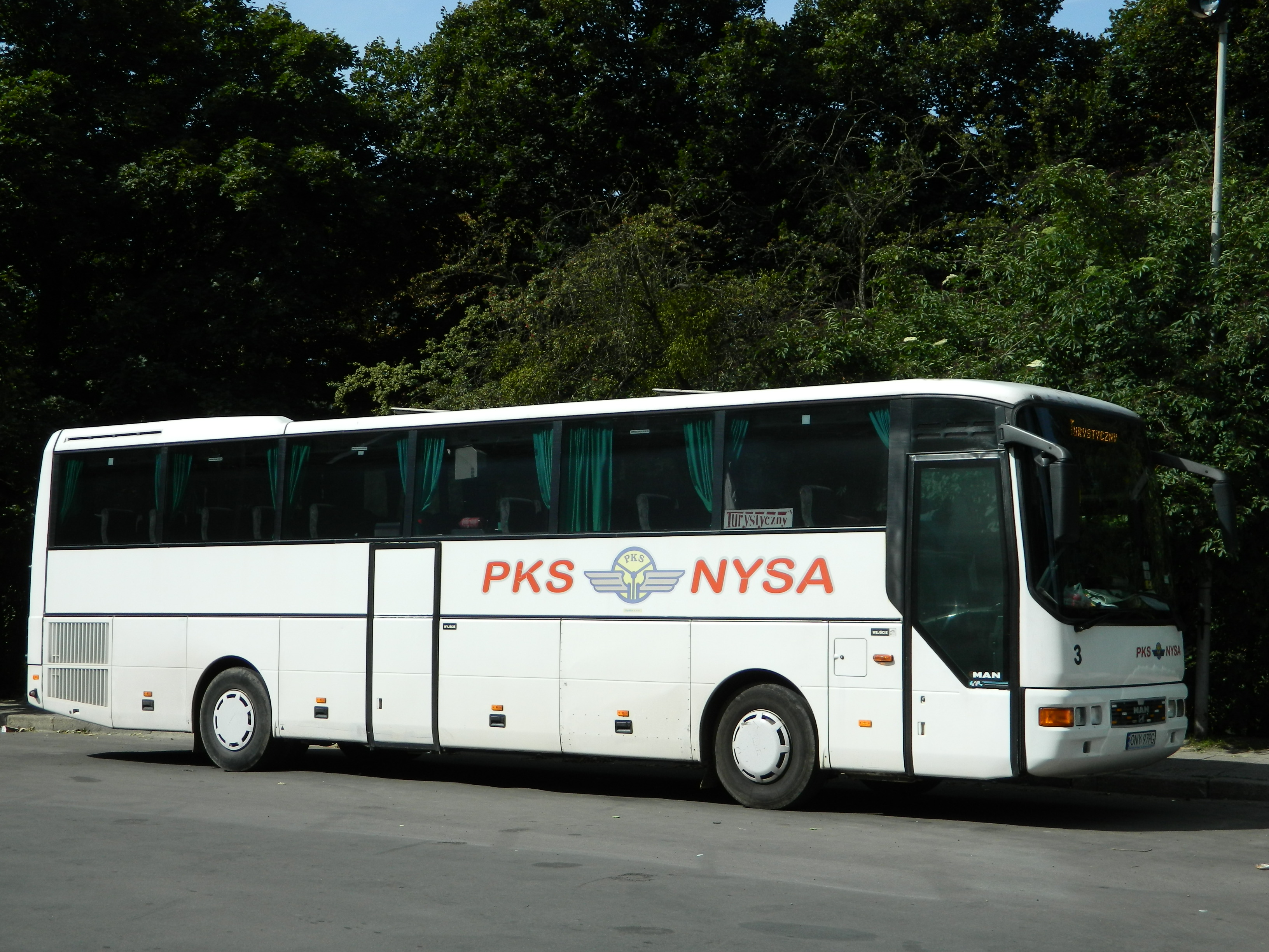 MAN Lion's Star RH 403 coach (reg. ONY 97PG, #3) in Ukraine. PKS Nysa operator from Poland.